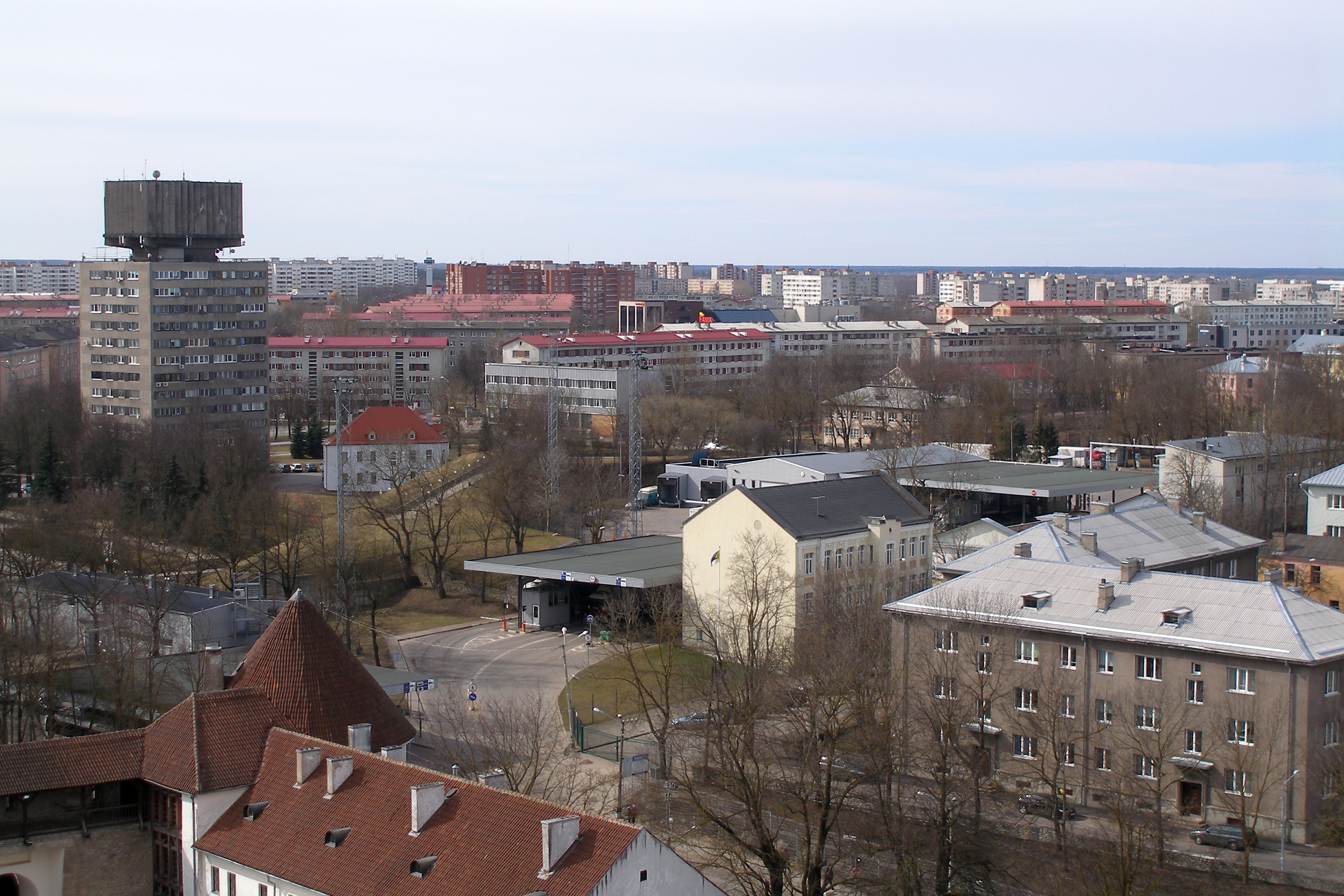 View northwest of Hermann Castle, Narva, Estonia.